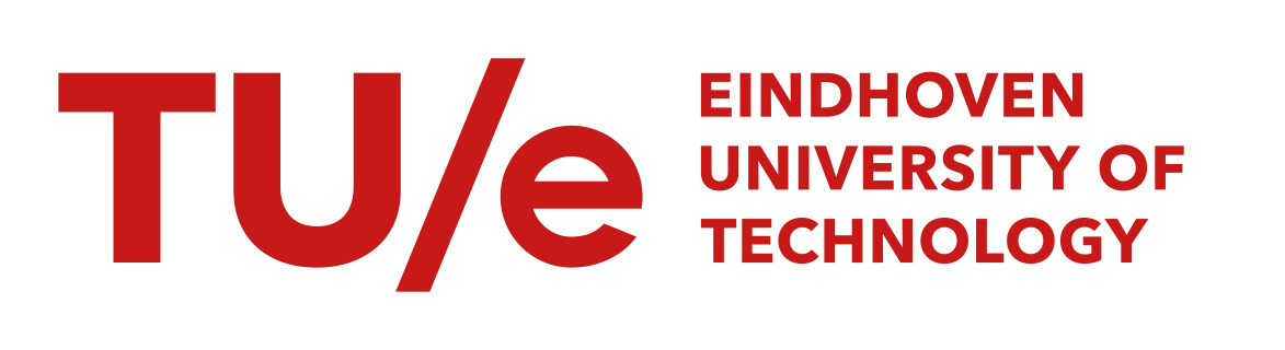 Eindhoven University of Technology logo